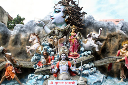 Shiva boit le poison issu du barattage, à gauche les démons, à droite les dieux. Haridwar, Temple de Shri Krishna Pranami. In Hinduism, "Samudra manthan"( or "The churning of the milky ocean" is one of the most famous episodes in the Puranas. Vishnu in his second incarnation, in the form of a turtle Kurma, came to rescue, Shiva drank the poison to save the universe, the goddess Lakshmi appeard form the milky ozean.